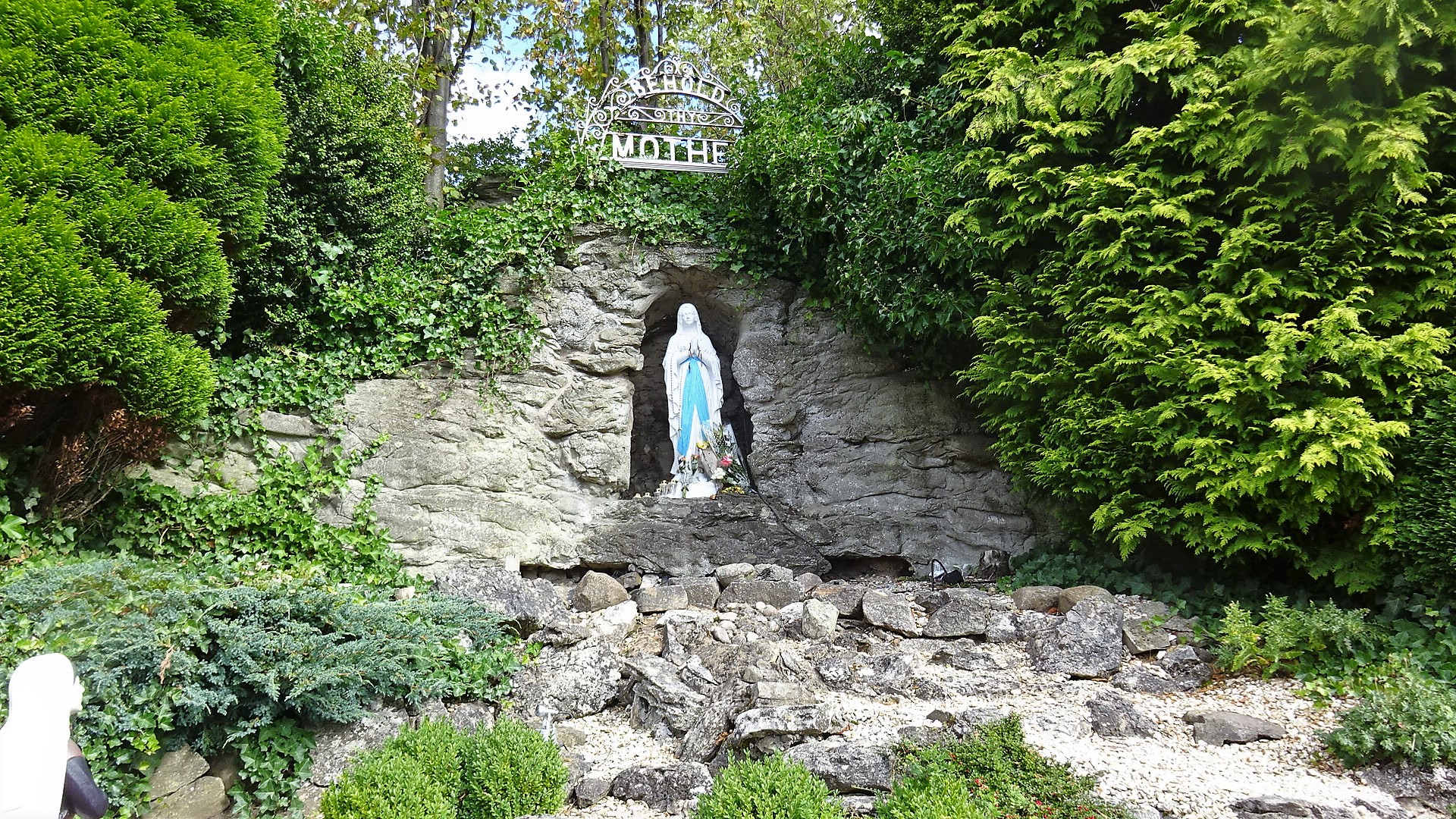 The Shrine to Our Lady of Lourdes and Saint Bernadette, Carfin Grotto, North Lanarkshire, Scotland.